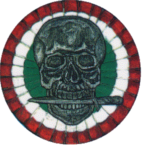 Emblem of the Anti-Communist Volunteer Militia